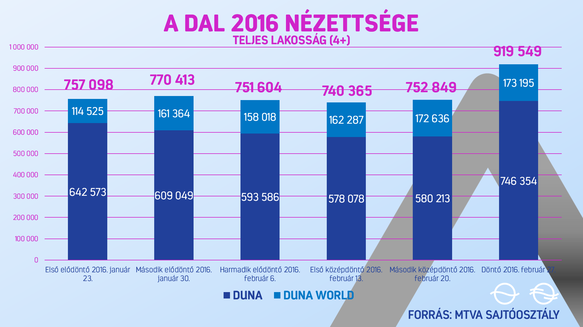 The viewing figures of the Hungarian national selection to the Eurovision Song Contest, A Dal 2016 on the national main channel Duna, and international public channel Duna World